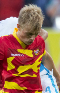 Maxim Lepsky in action for FC Arsenal Tula